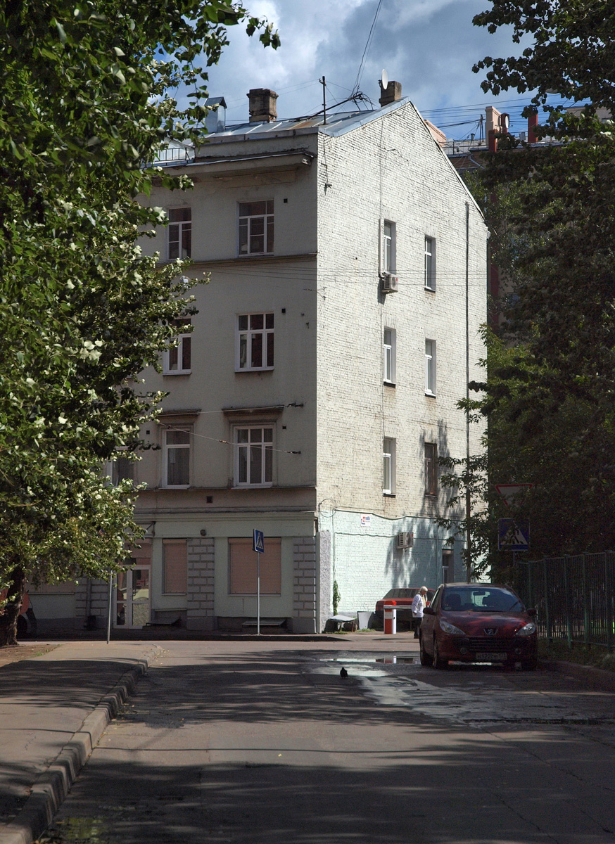 Naprudny Lane, Moscow, view into Gilyarovskogo St. Built, according to wall bas relief, in 1914.